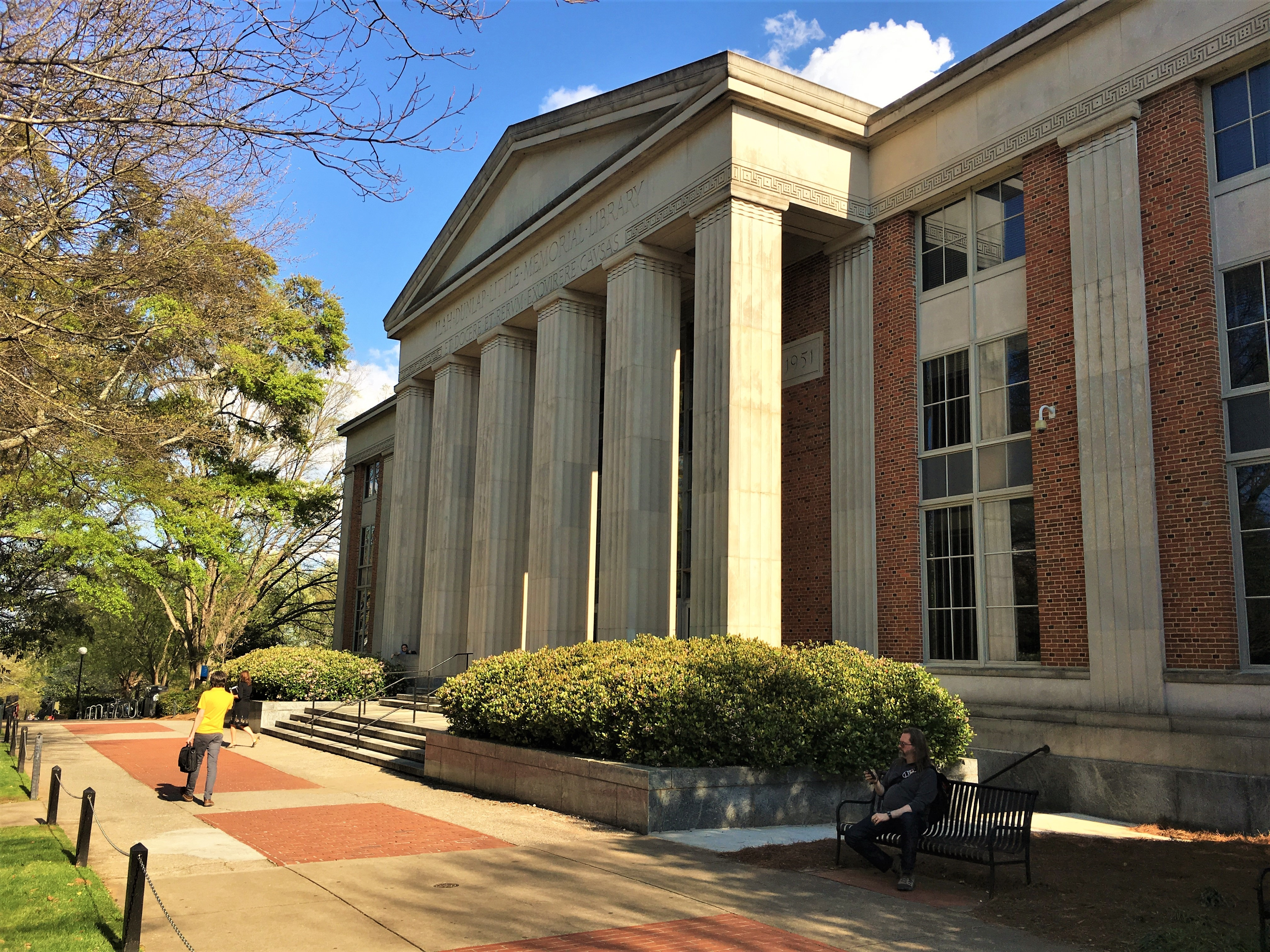 Ilah Dunlap Little Library, one of thirteen libraries containing 5.7 million volumes at the University of Georgia.